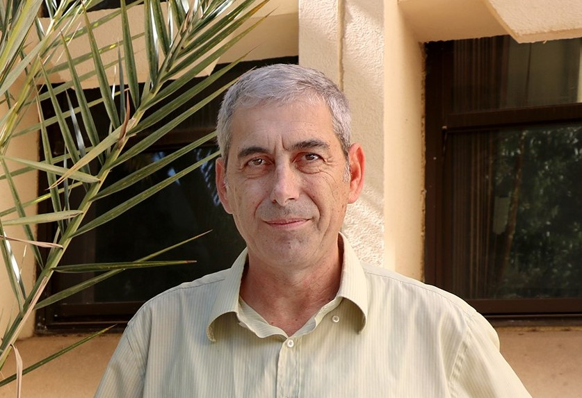 Dr. Yitzhak Conforti in 2020